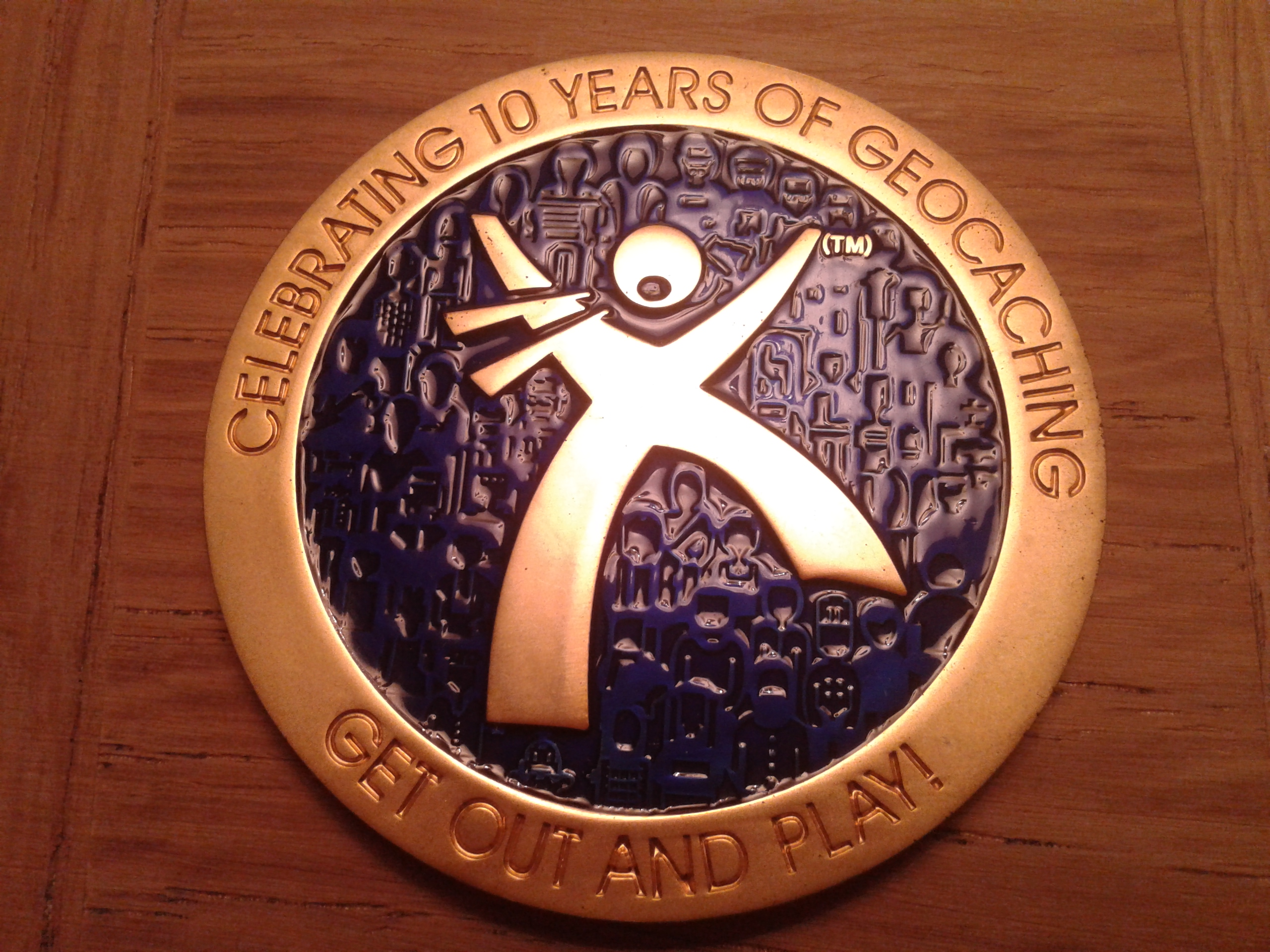 Geocoin trackable on